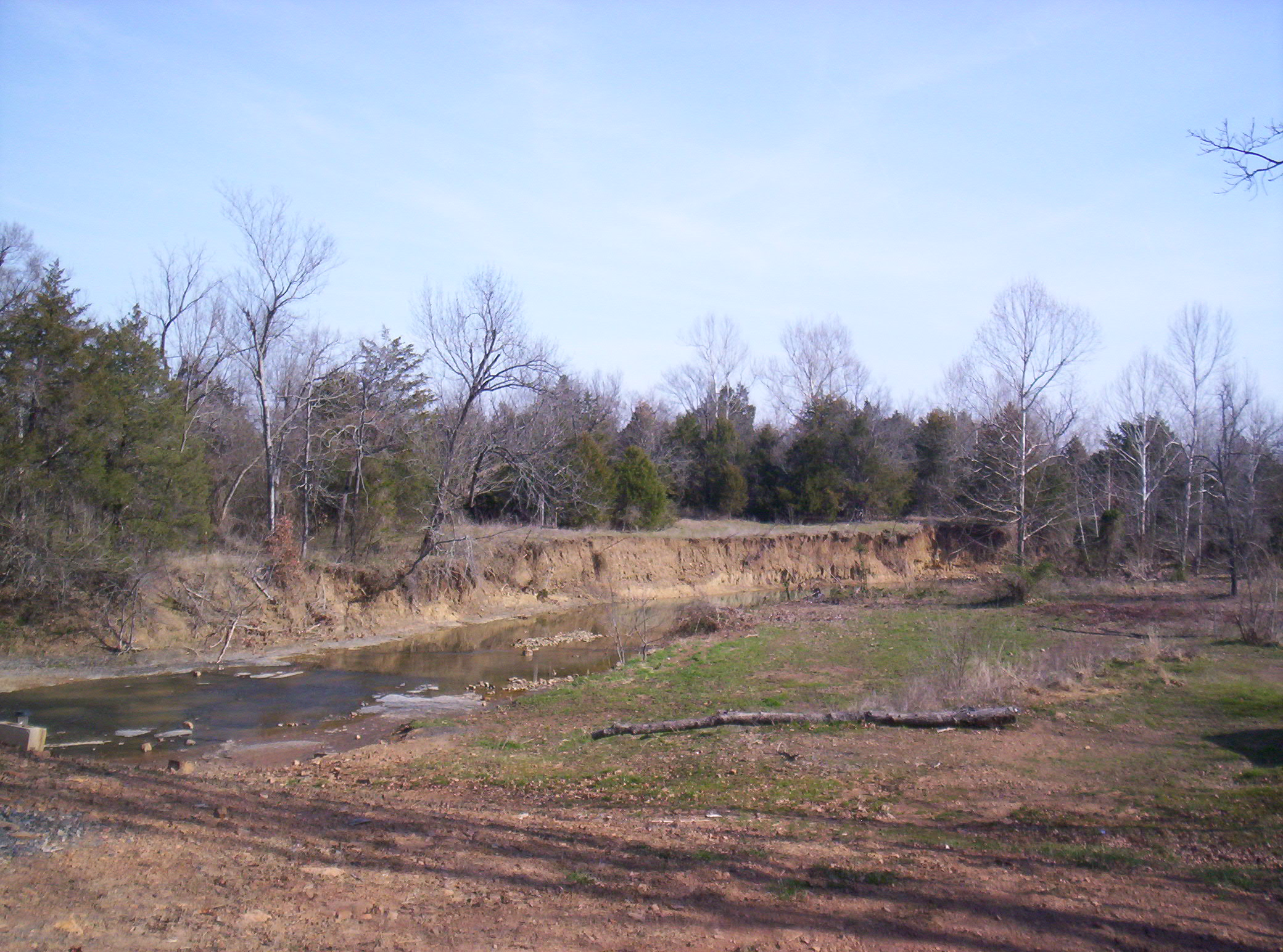 Nail Creek running parallel to Nail Creek Road just